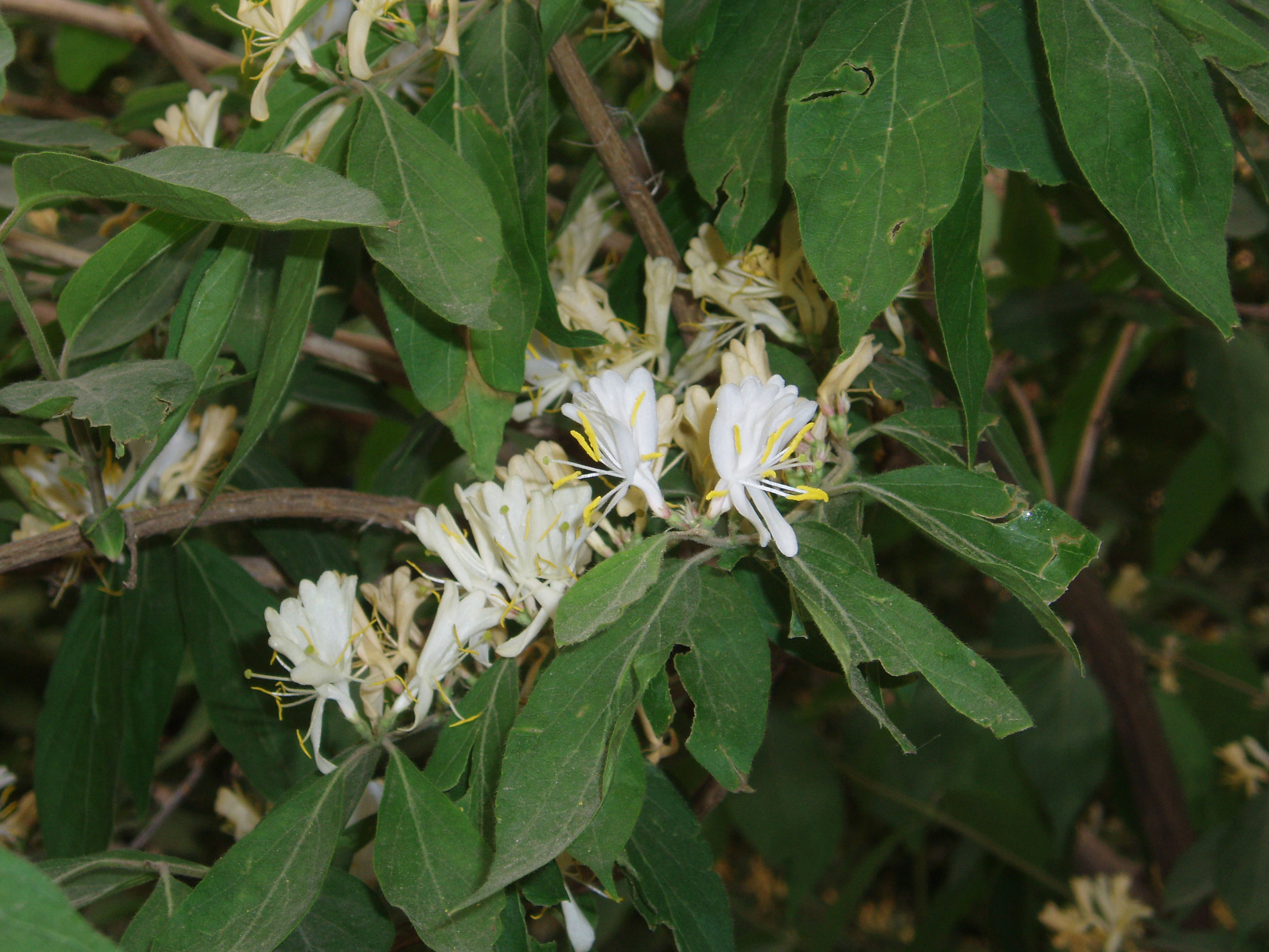 Amur honeysuckle flowers